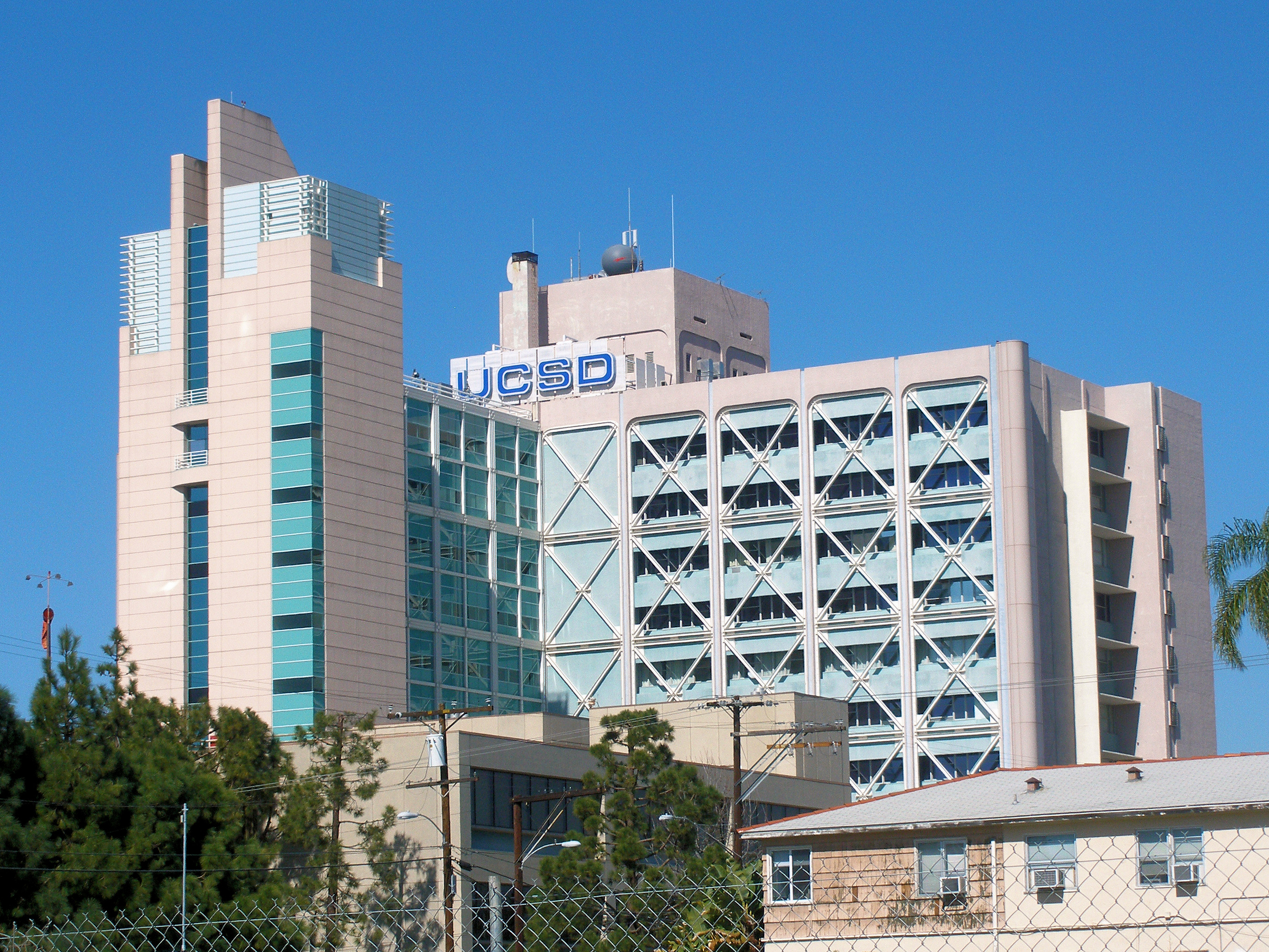 The UCSD Medical Center in the Hillcrest neighborhood of San Diego.